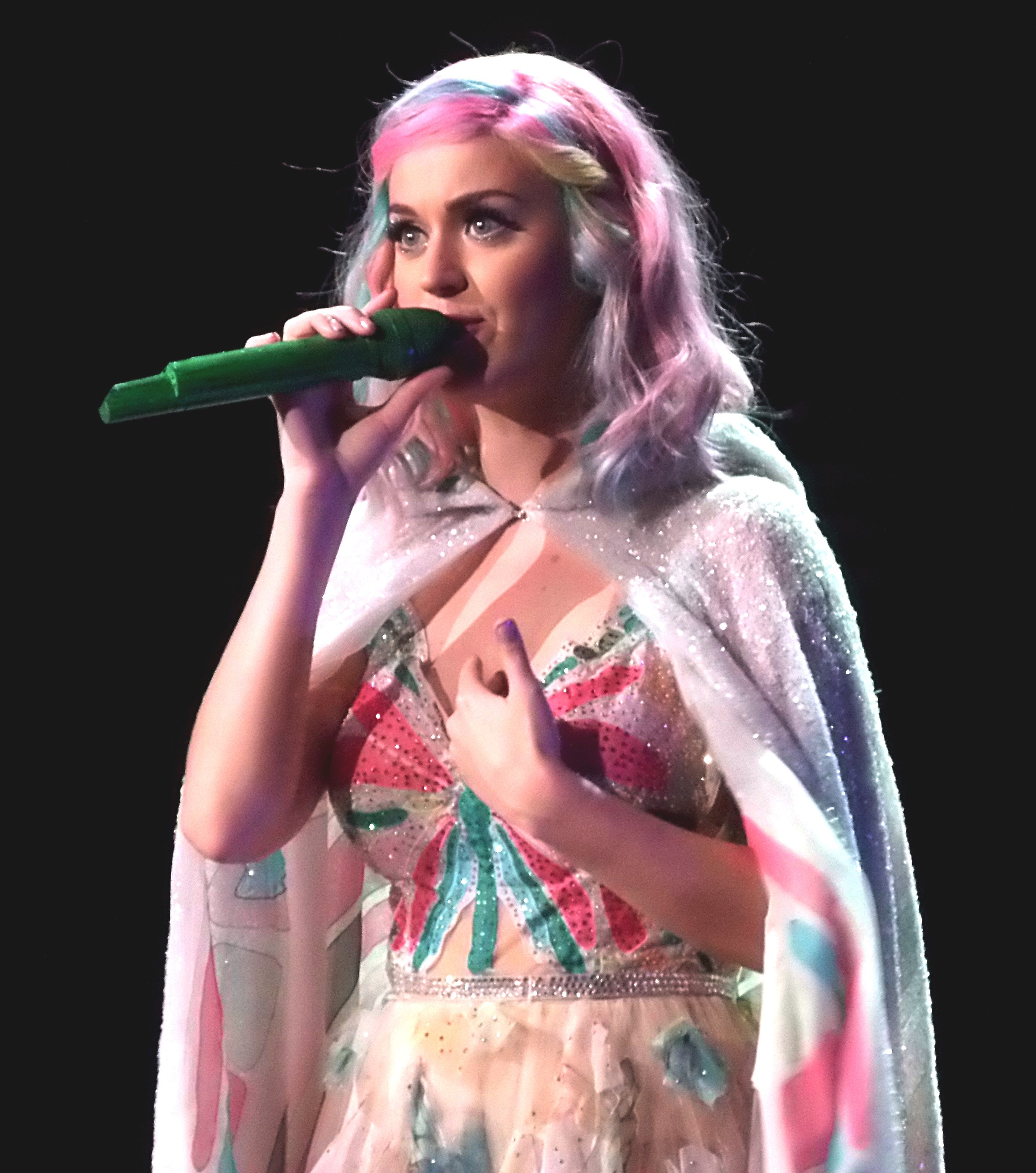 Katy Perry performing at BB&T Center in Sunrise, Florida in July 2, 2014.